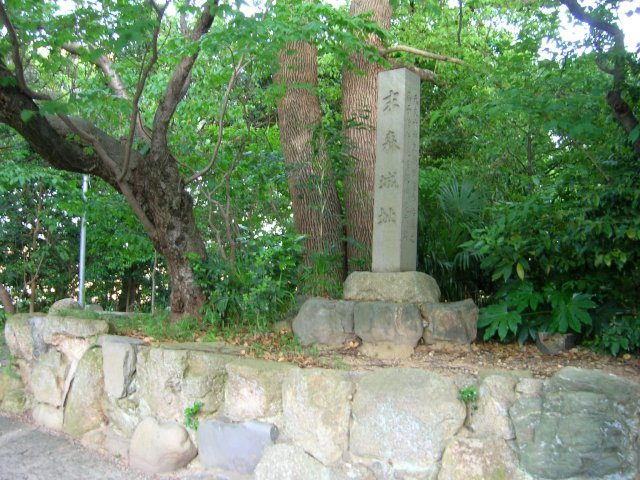 Suemori-jho ato (Site of Suemori castle) Loc: Nagoya city, Aichi Prefecture, Japan 末森城址 (尾張国) 撮影場所 愛知県名古屋市